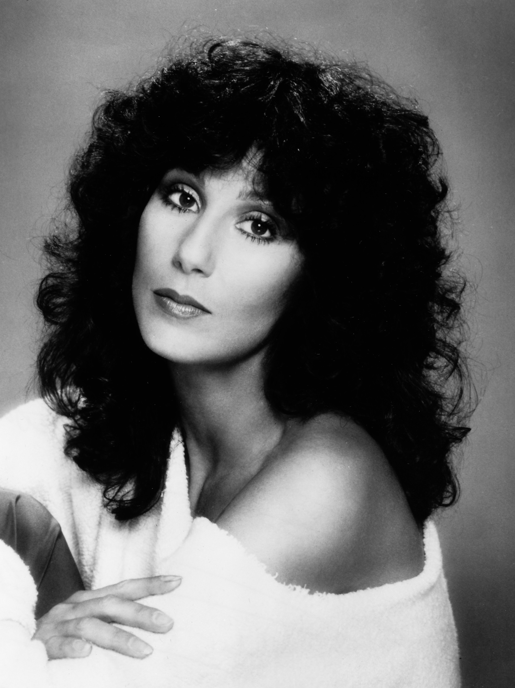 Original publicity photo of Cher.